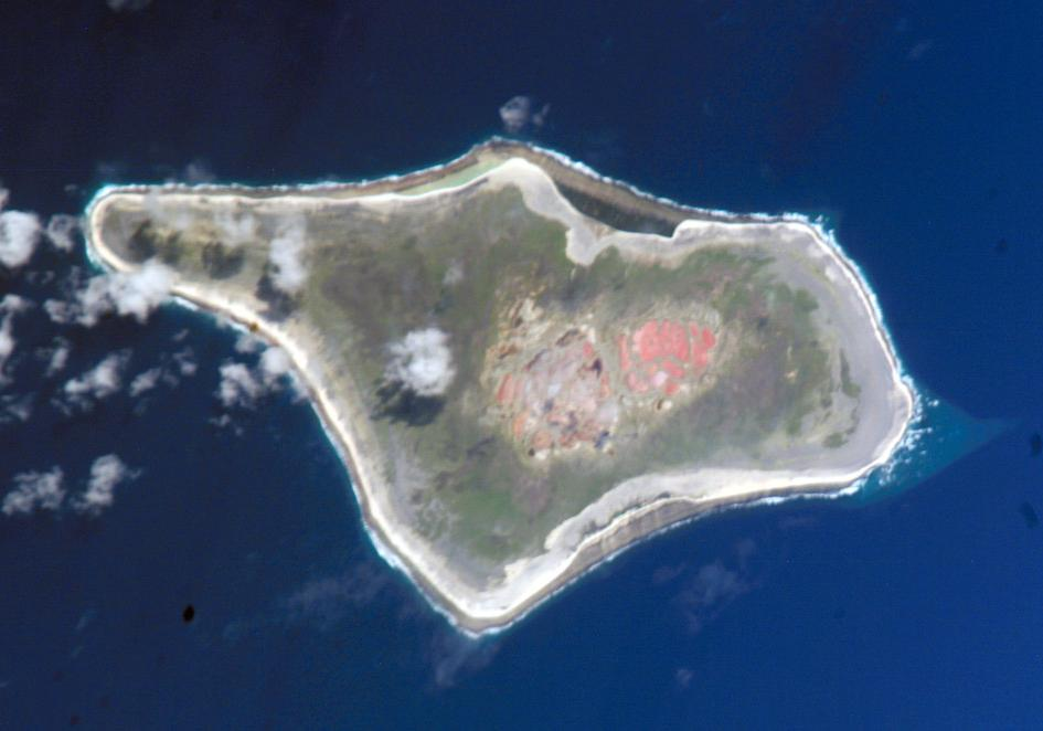 NASA Astronaut Image of Starbuck Island (Kiribati) in the Pacific Ocean